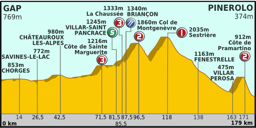 Profil of the 17th stage of the Tour de France 2011